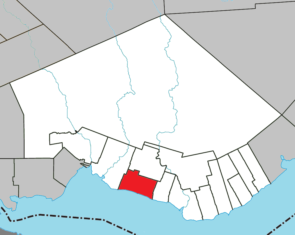 Location of Caplan, Quebec within Bonaventure Regional County Municipality.